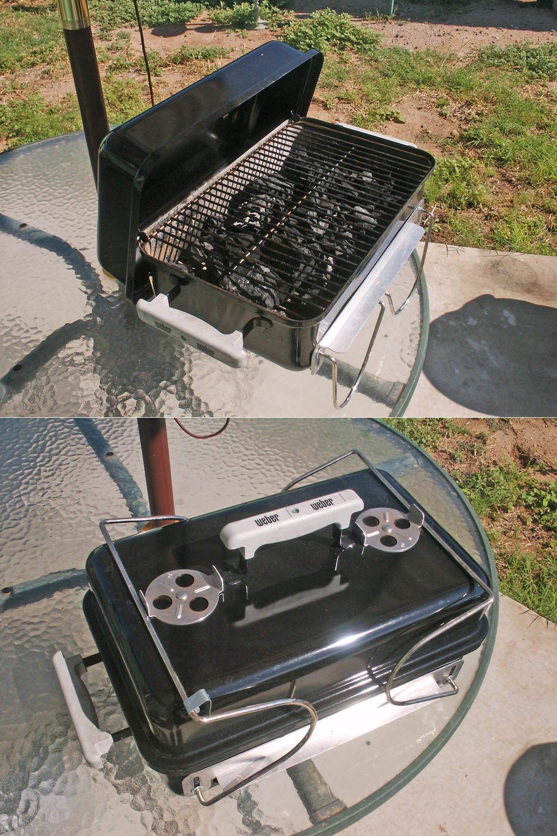 Photographs of a portable charcoal grill loaded with lump charcoal, and same grill with legs rotated to secure lid, therefore making it more portable.